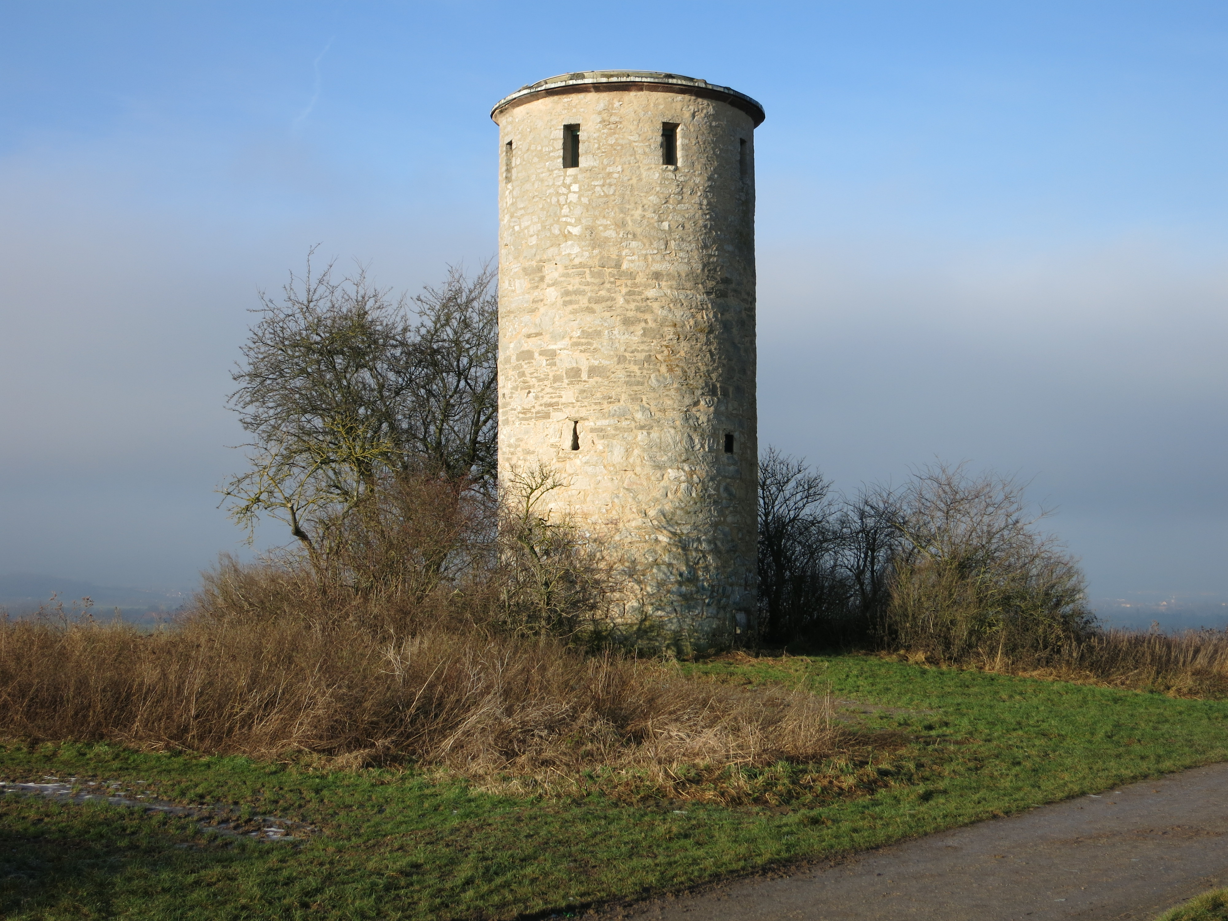 Tower near Goettingen